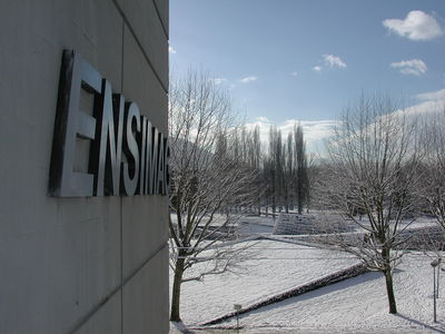 Ensimag building with snow landscape